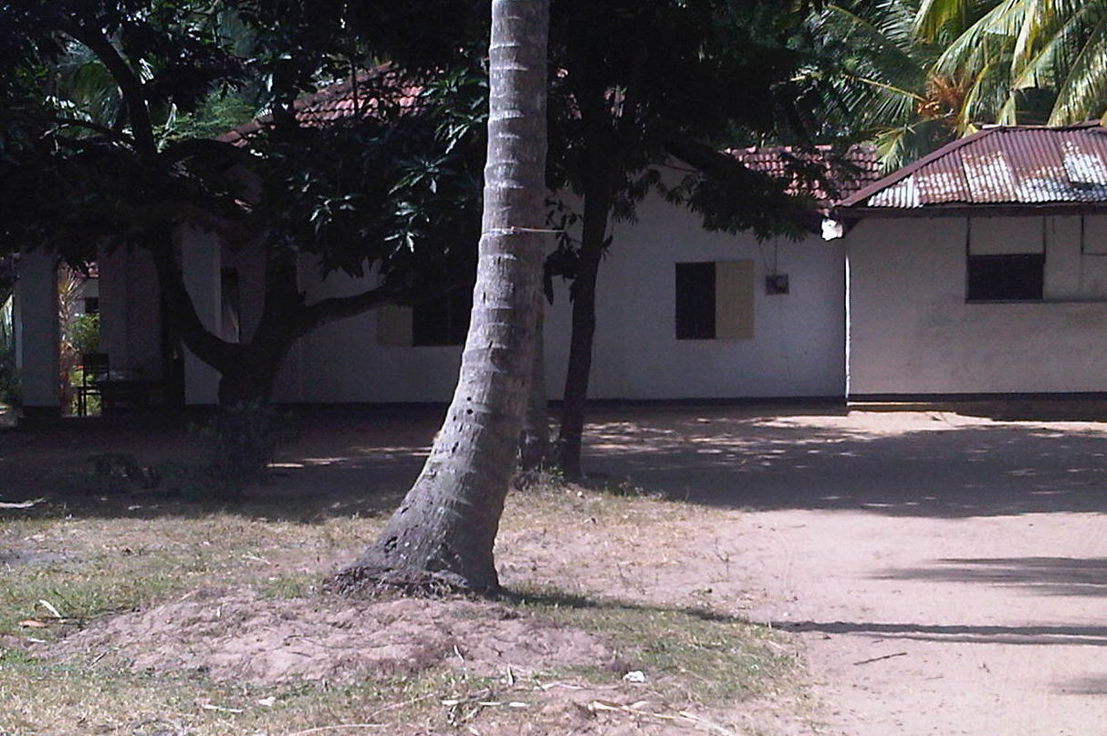 The historic home, Corea Court in Madampe - several generations of the Seneviratne and Corea Families lived here. The estate was given to Mudaliyar Seneviratne's family by the King of Sri Lanka in 1758. Among those who have lived in this historic building are Dr.James Alfred Corea and latterly his children Gwendoline Seneviratne and Reverend Canon Ivan Corea. J.A.Corea, Mohandiram of Madampe son of Mudaliyar Henry Richard Corea has also lived in Corea Court.